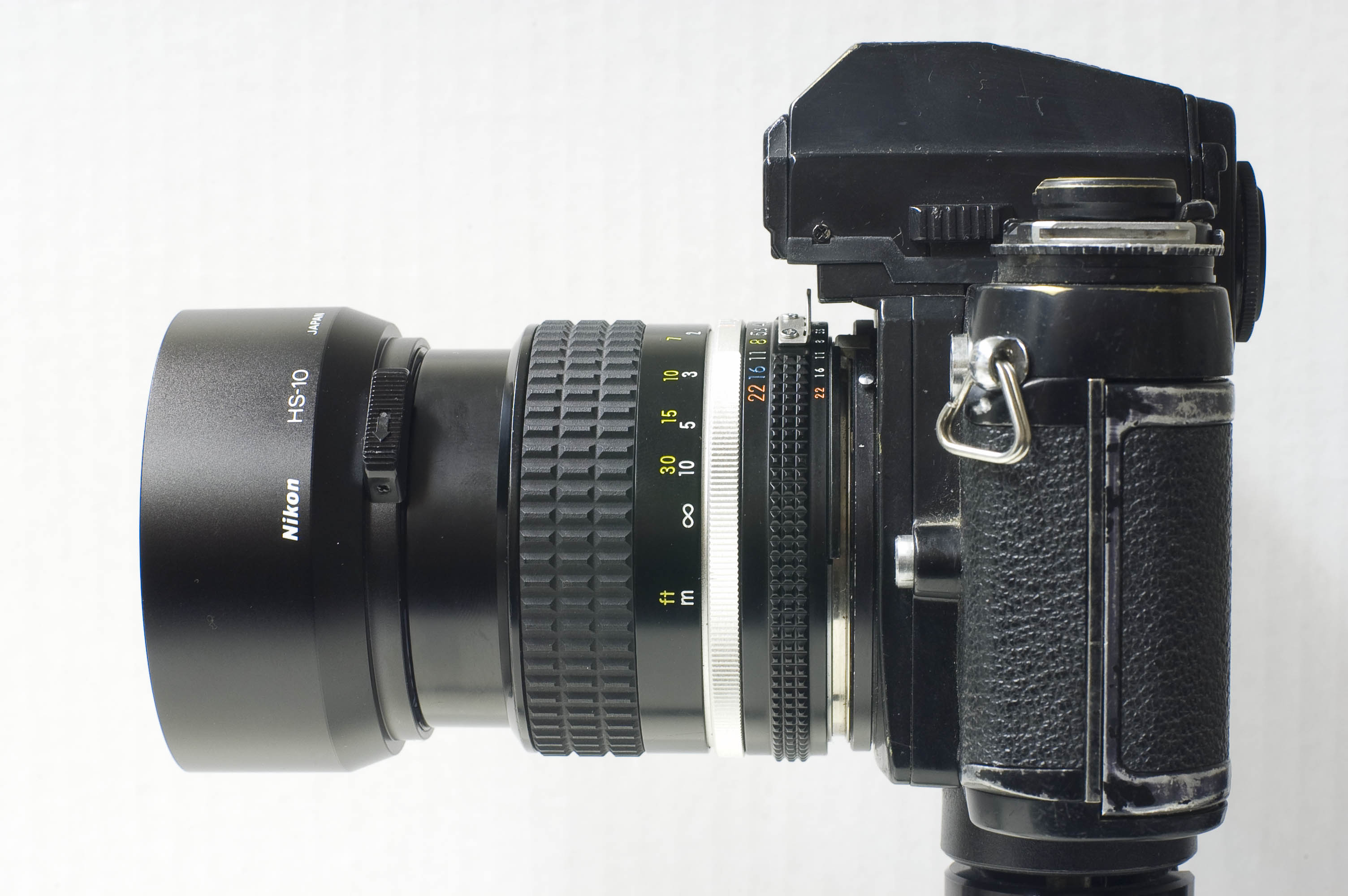 Nikon F3 HP with AiS Nikkor 2.0 85 mm